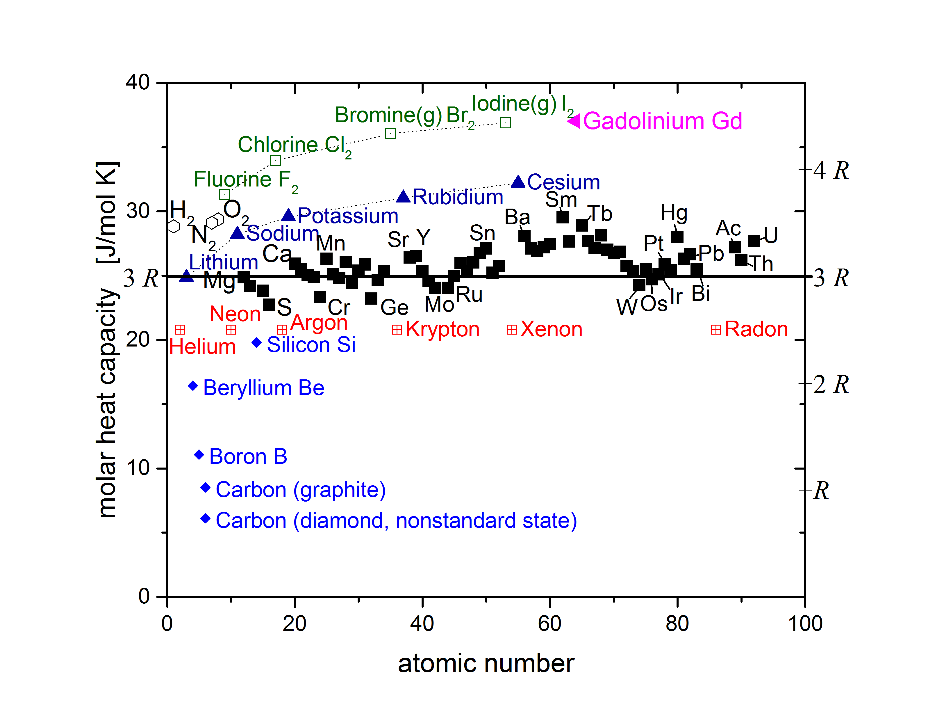 The molar heat capacity plotted of most elements at 25°C plotted as a function of atomic number. The values of bromine and iodine are for the gaseous state. The elements boron B, carbon C and silicon Si have a small capacity; their data is shown in blue.